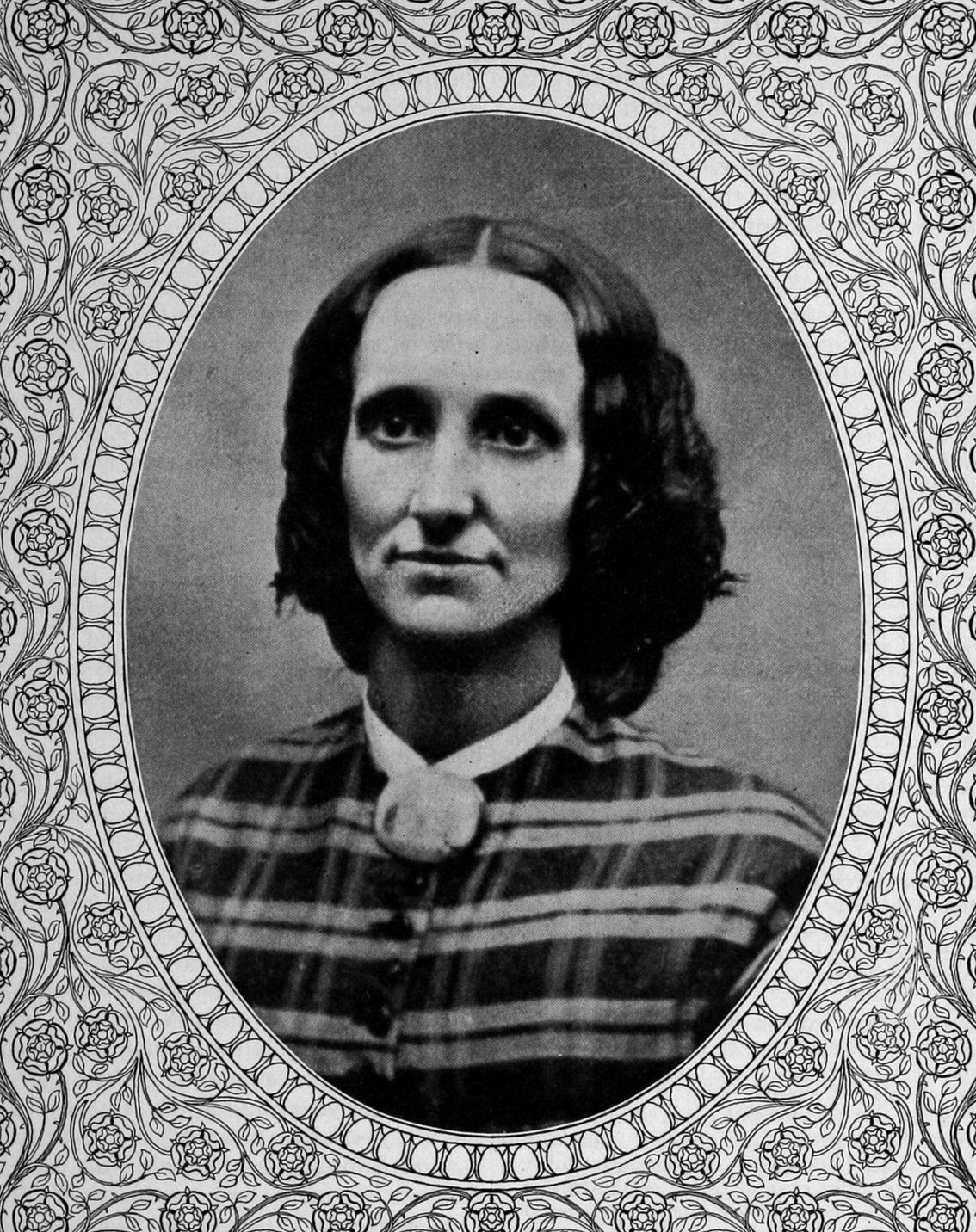 Mary Baker Eddy, founder of Christian Science, from a tintype given to Mrs. Sarah Crosby in the summer of 1864.